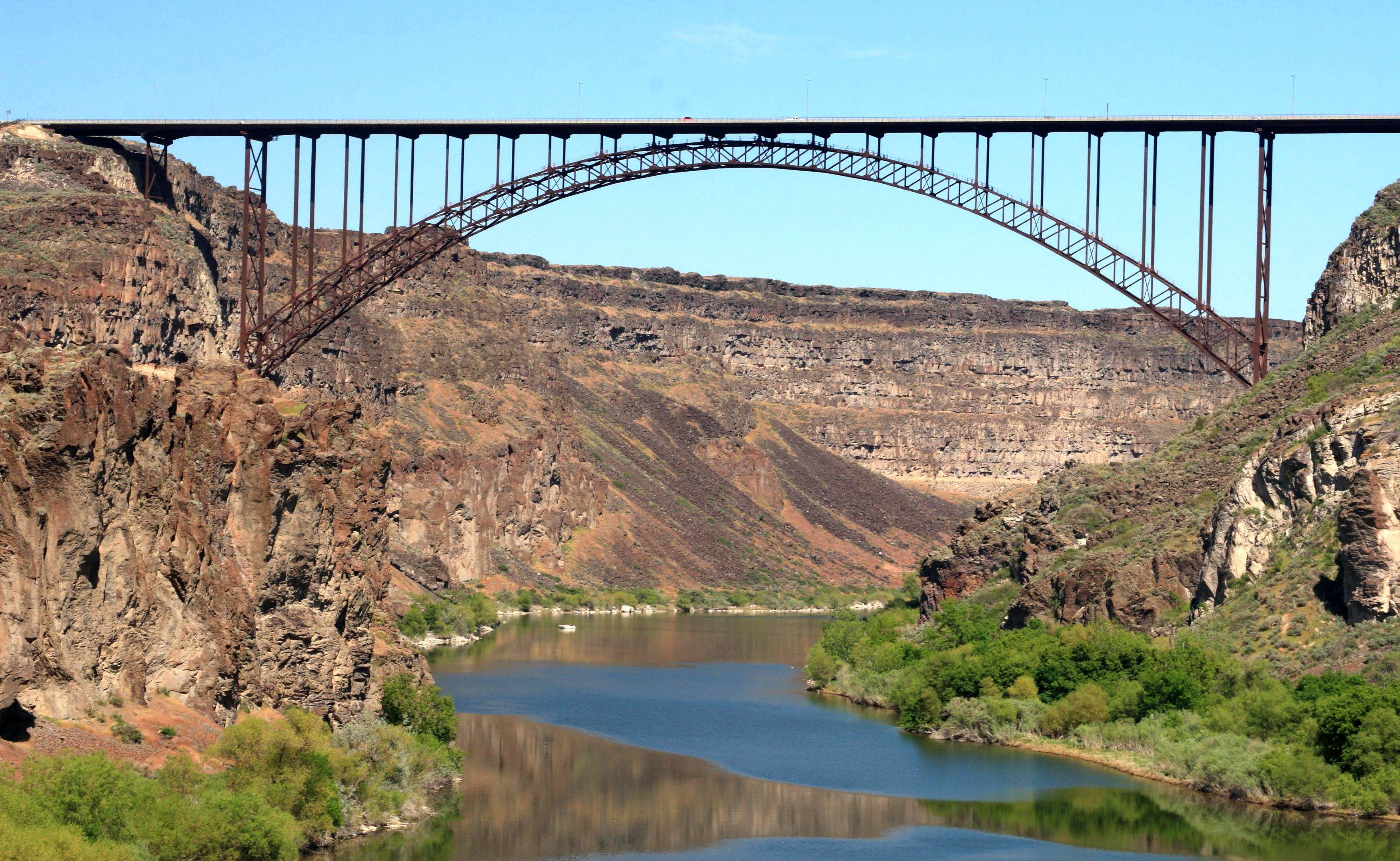 Perrine Bridge spanning the Snake River at Twin Falls, Idaho